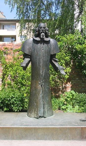 Comenius-Monument in the Comenius-Garten (garden) in Berlin-Neukölln, Germany, created by the sculptor Josef Vajce. It was unveiled in 1992 by Alexander Dubček.